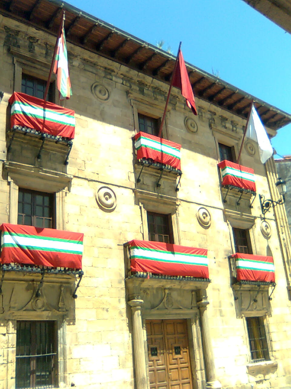 Council of Zarautz in Basque Country (june 2008).